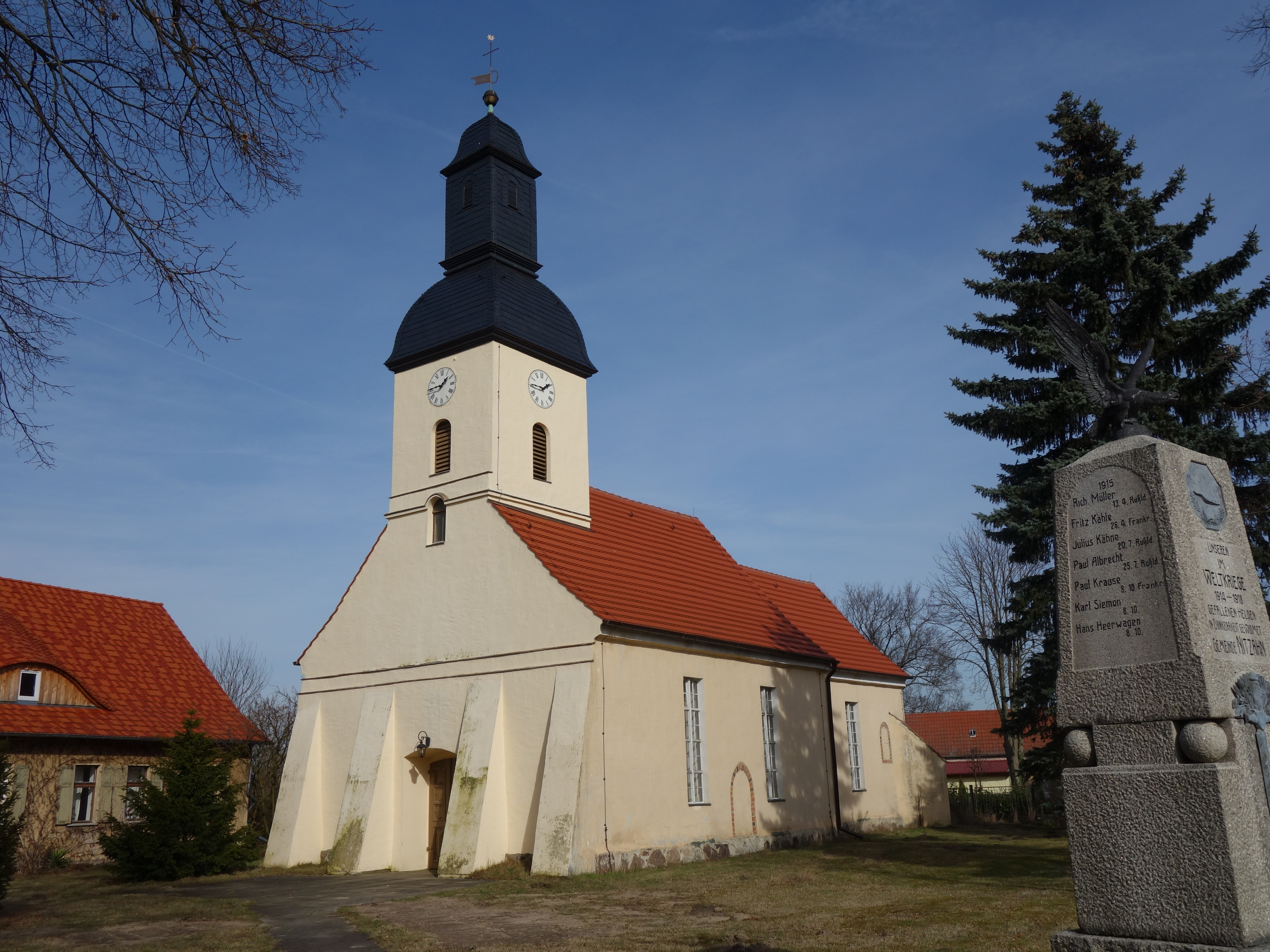 South-western view of church in Nitzahn, Milower Land municipality, Havelland district, Brandenburg state, Germany.